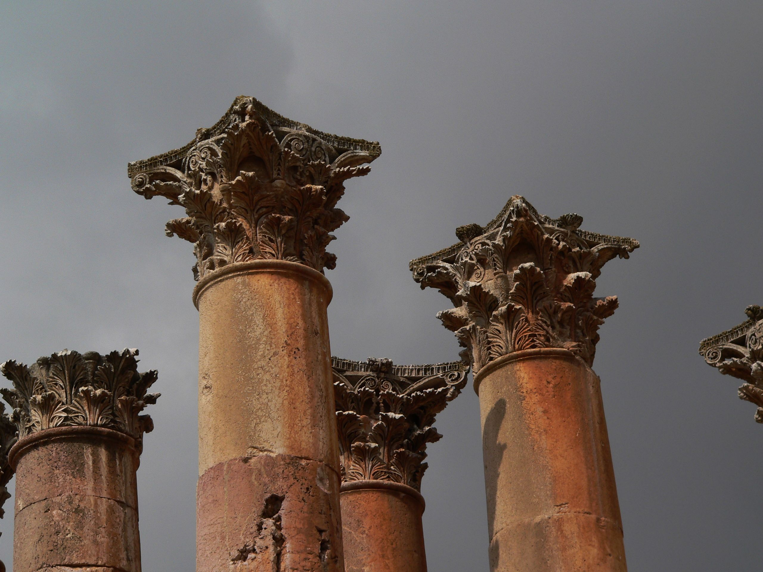 Corinthian column at the Temple of Artemis in Jerash